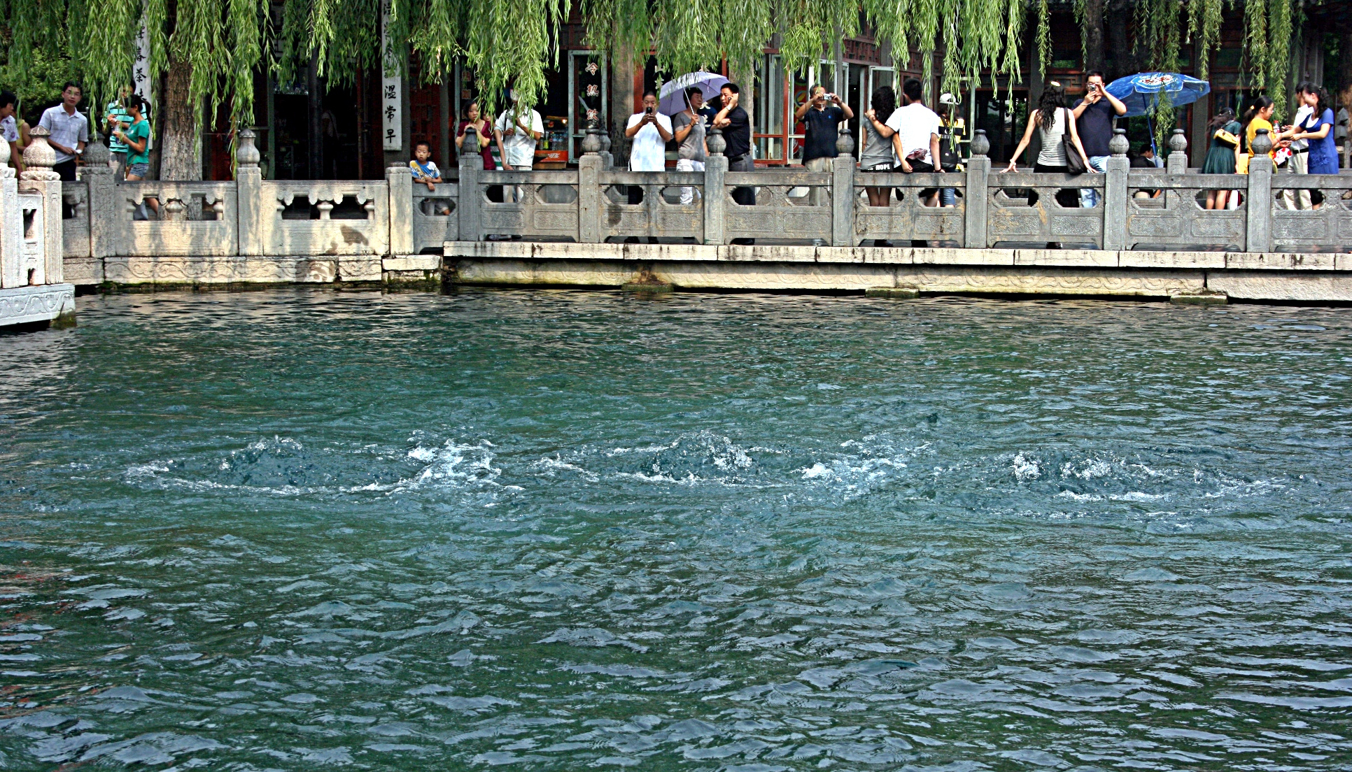 Photograph of water gushing from the three outlets of the Baotu Spring in Baotu Spring Park, Jinan, Shandong, China